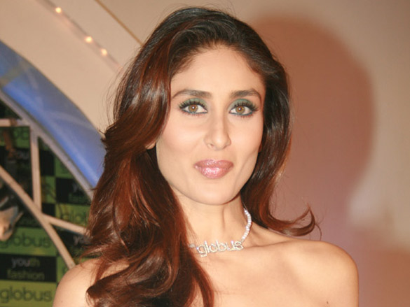 Globus Announces Kareena Kapoor As Brand Ambassador